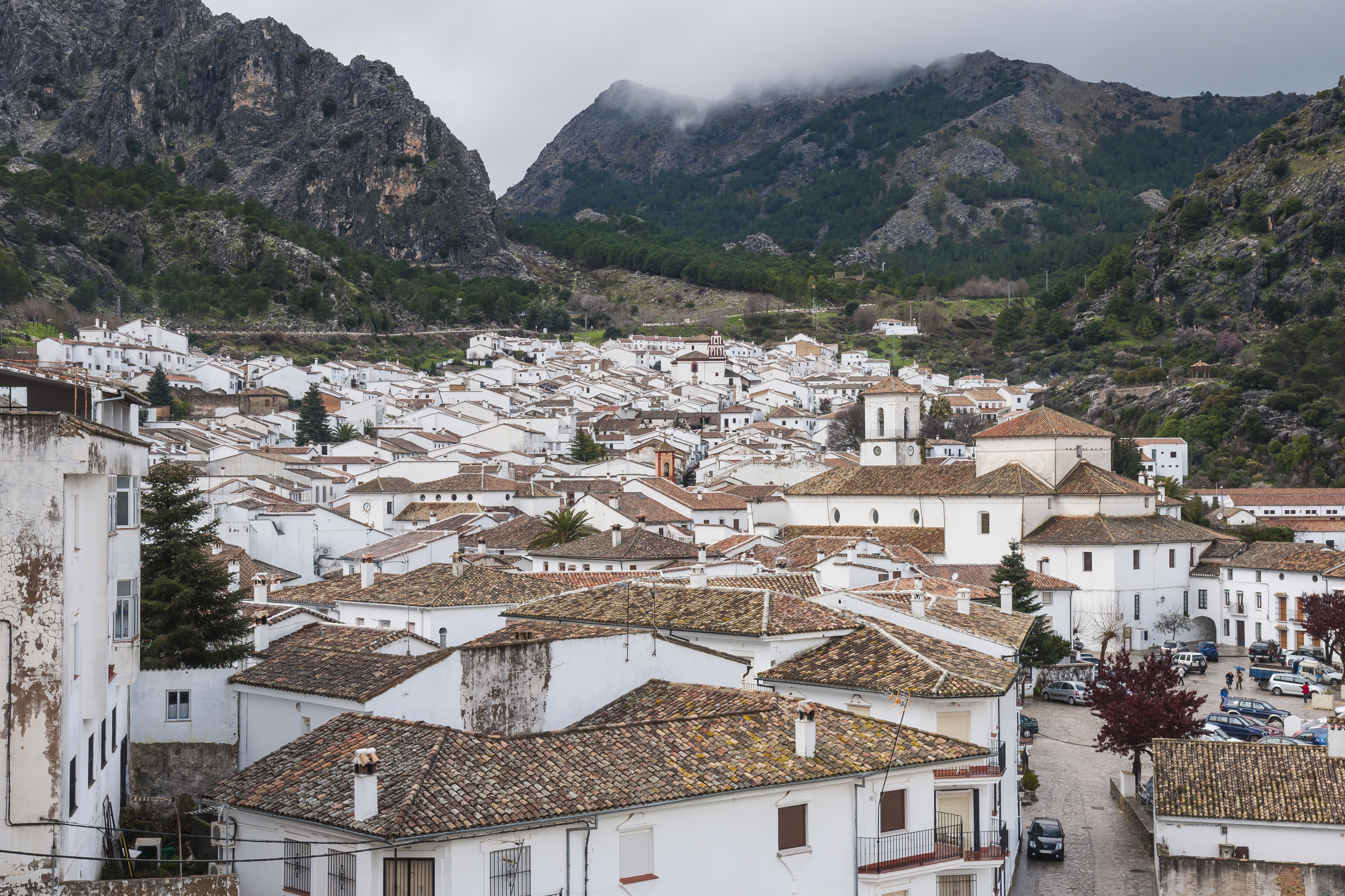 Grazalema, Spain: View of Grazalema, a pueblo blanco of Andalucia